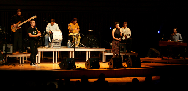 Besh o droM concert at Ferencváros (Budapest, Hungary).2007. november 20. kedd. 19:30 — 22:00., Bartók Béla Nemzeti Hangversenyterem